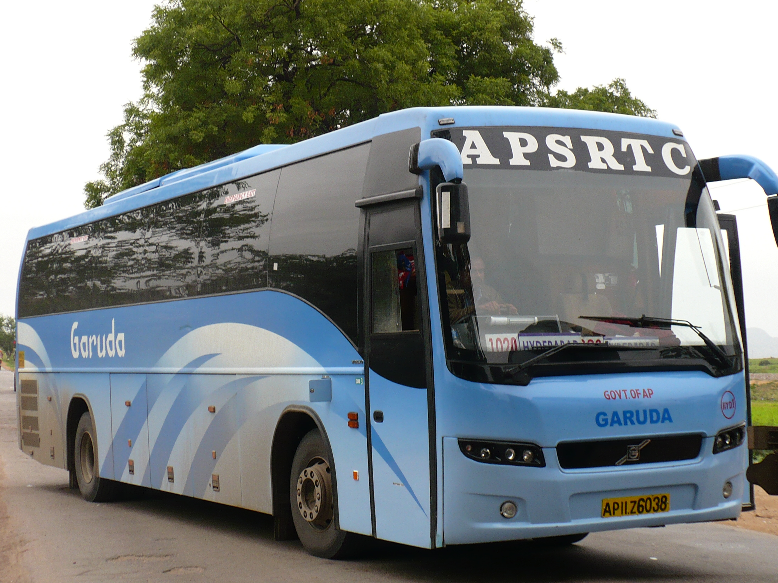 Volvo bus in livery of the Andhra Pradesh State Road Transport Corporation, Andhra Pradesh, India